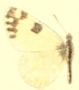 Plate from The Macrolepidoptera of the World. Vol. 5: Euchloe creusa